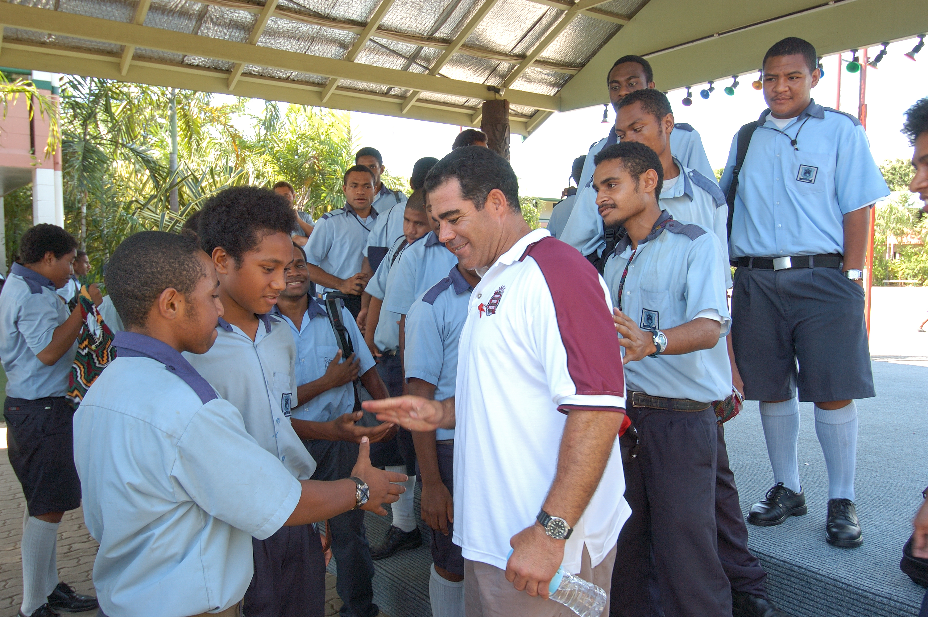 Mal Meninga meeting school students in Vanuatu. ausAID supports sports for development programs to encourage a healthy lifestyle. Vanuatu 2005. Photo: AusAID